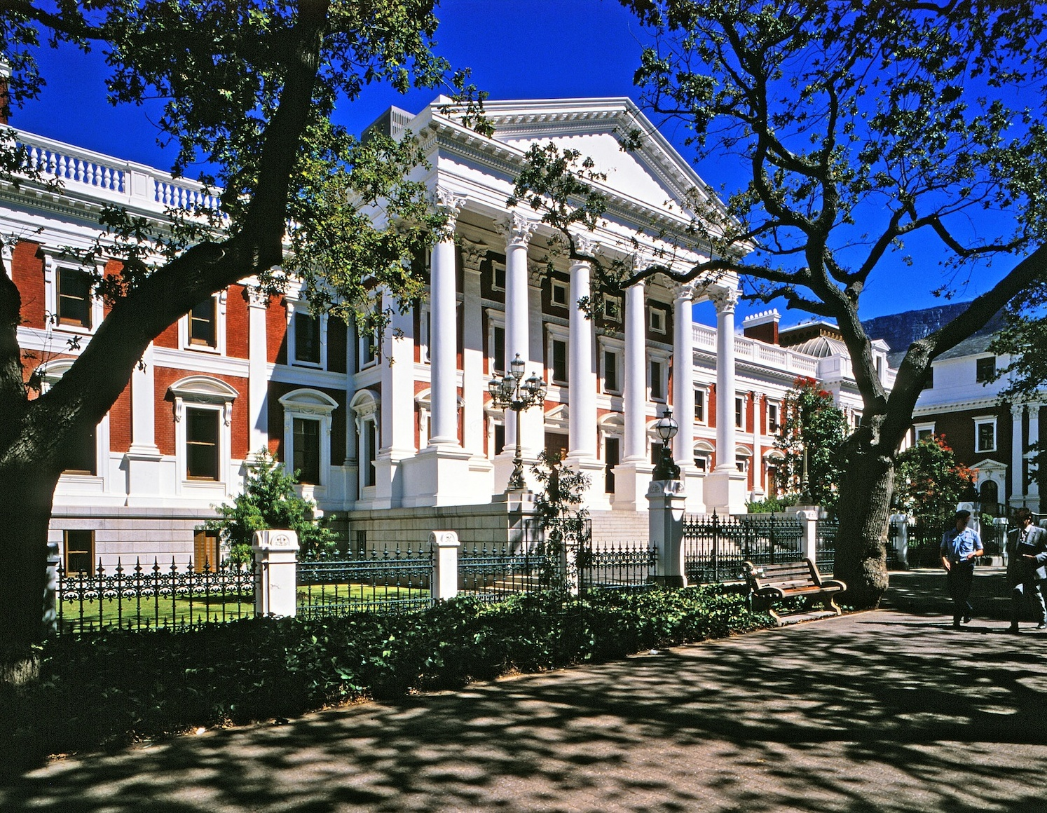 This media shows a South African Protected Site with SAHRA file reference 9/2/018/0234.